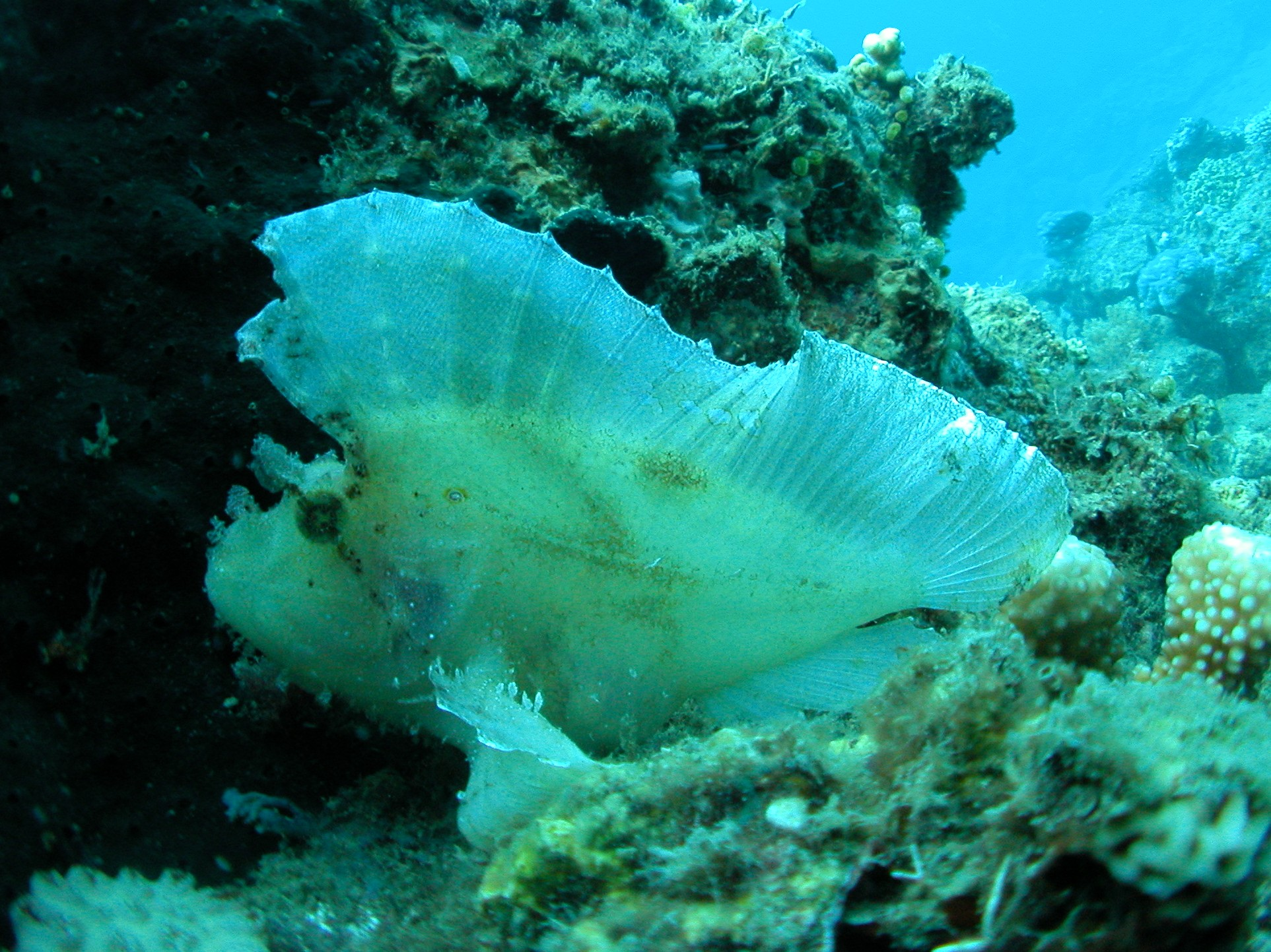 Taenianotus triacanthus. in Nha Trang, Vietnam